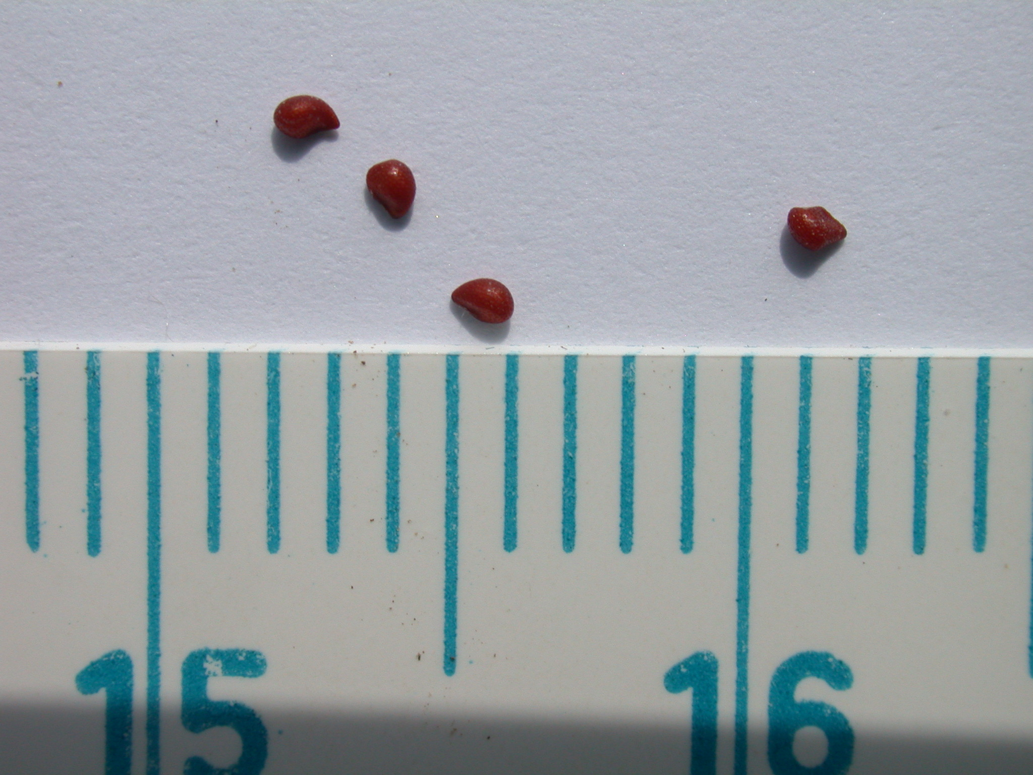 Seeds of Mammillaria matudae.